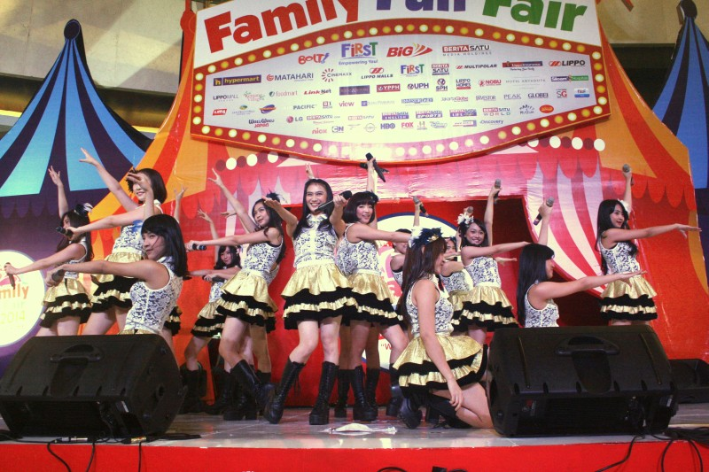 JKT48 Lippo Kemang Family Fun Fair Jakarta 16-11-2014 IMG 3199